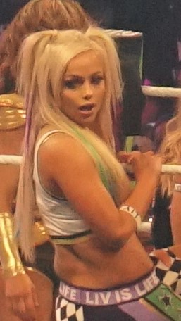 Divas battle royal, April 2018.